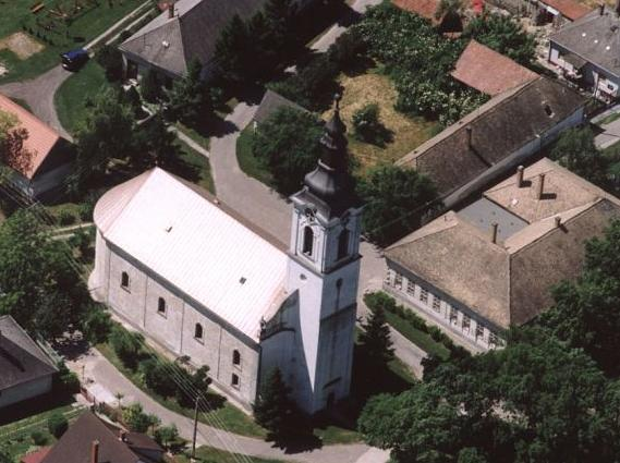 Reformed church in Madocsa, Hungary, aerial photography